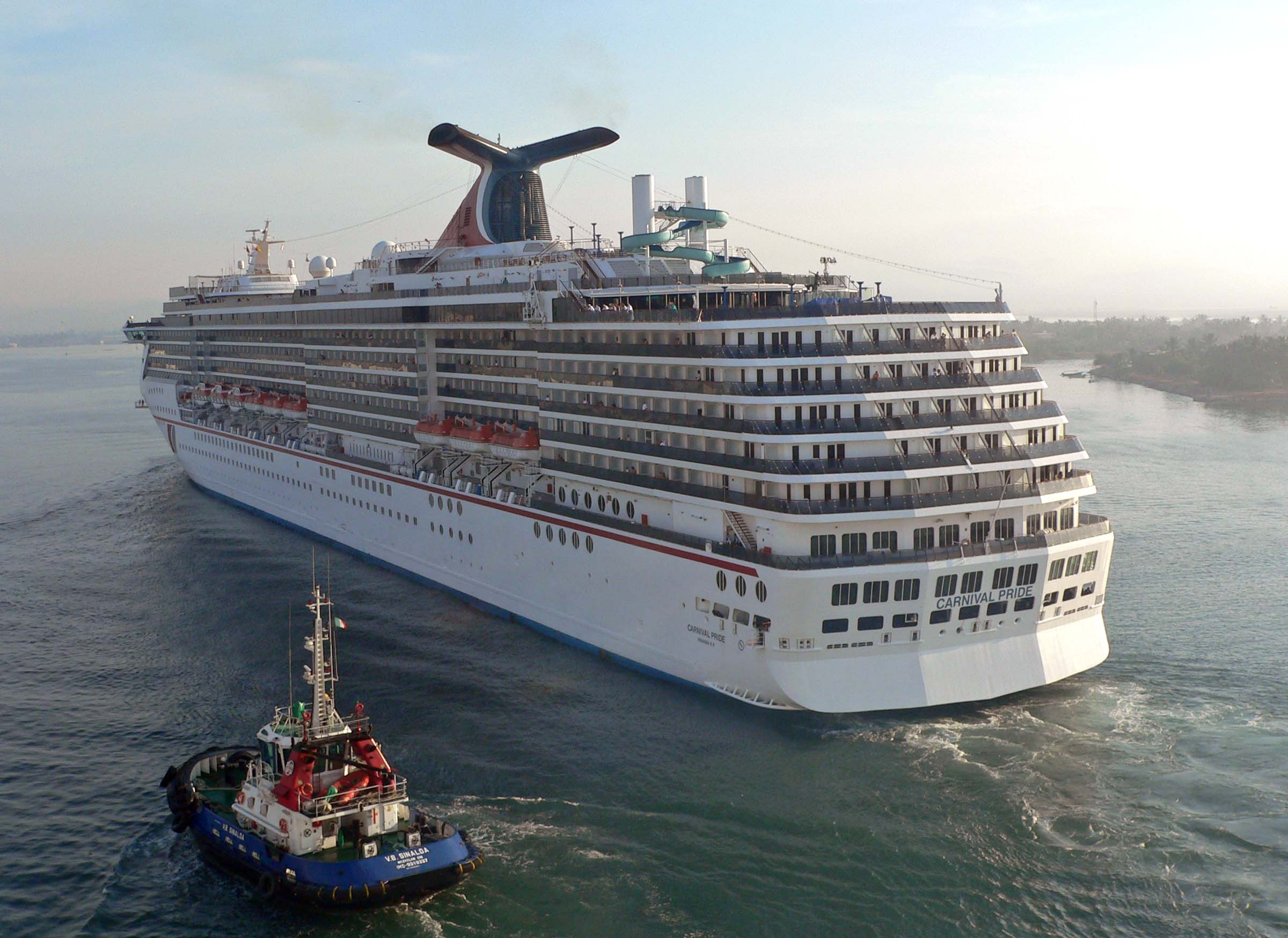 Photo of cruise ship Carnival Pride at Mazatlan